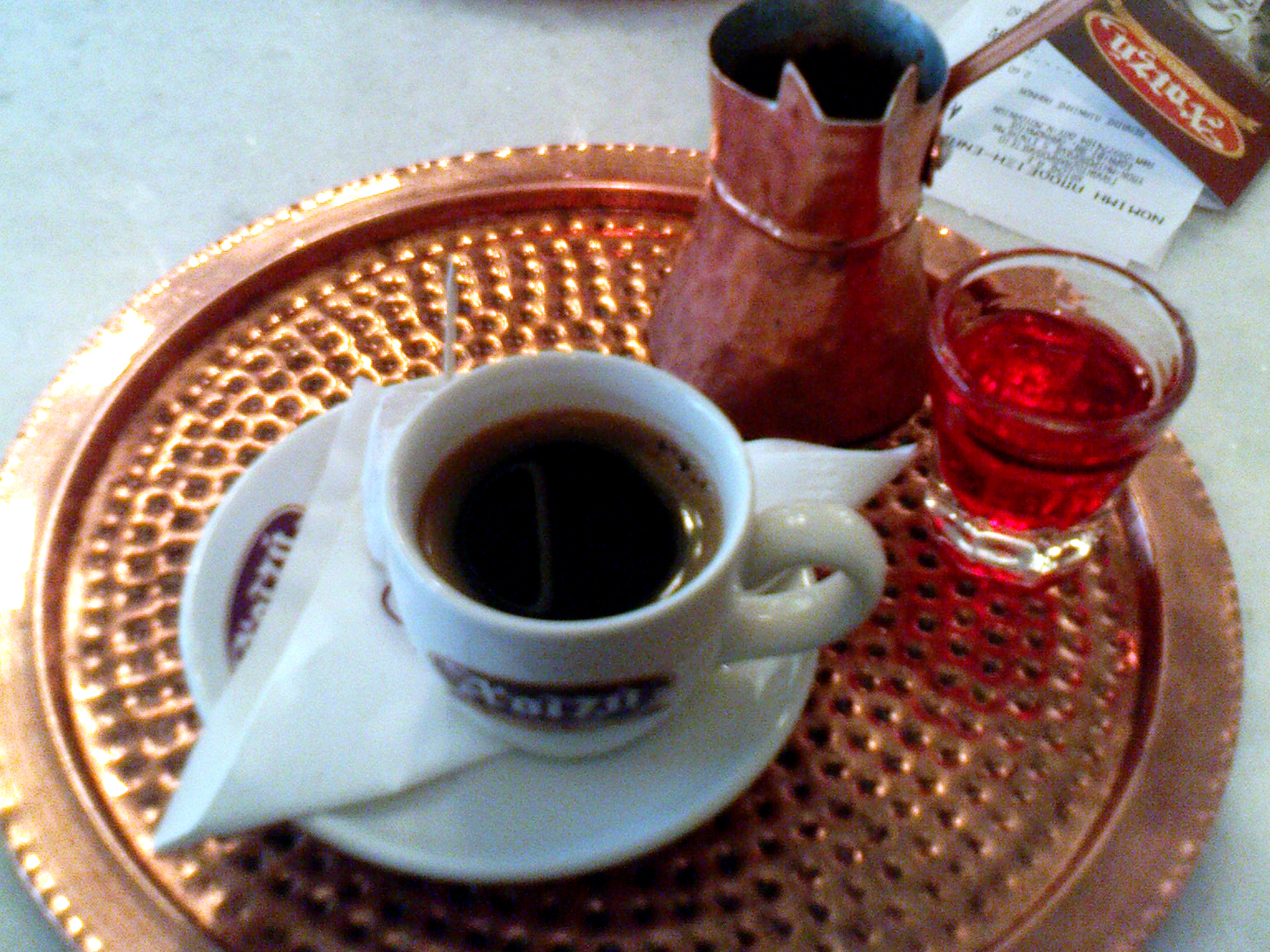 Café grec presentat en un briki (μπρίκι) tradicional i acompanyat de licor de roses, a una cafeteria d'Atenes.